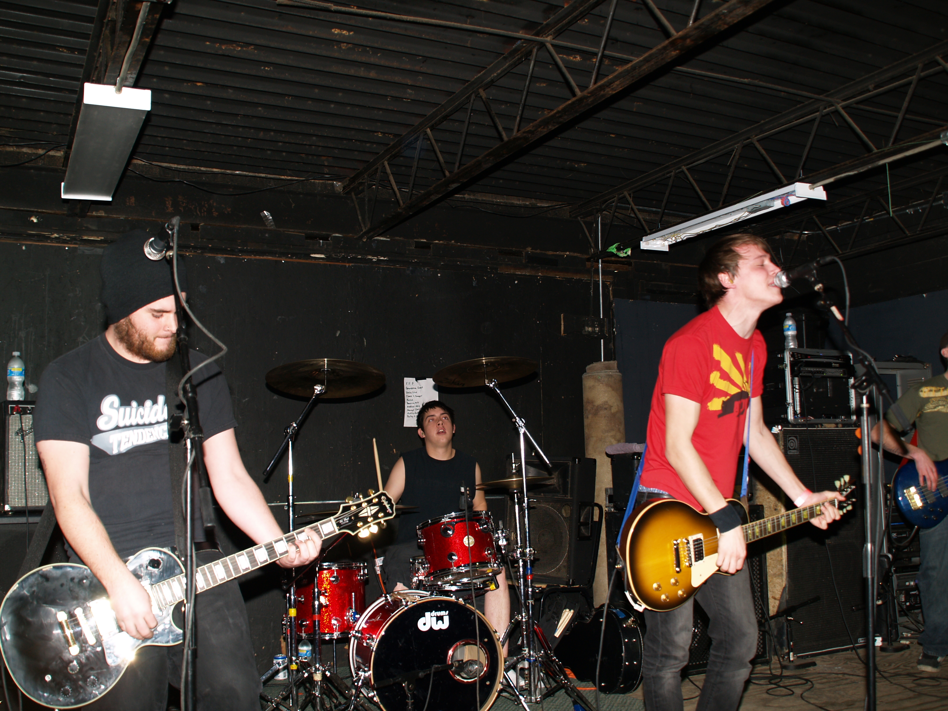 The Flatliners